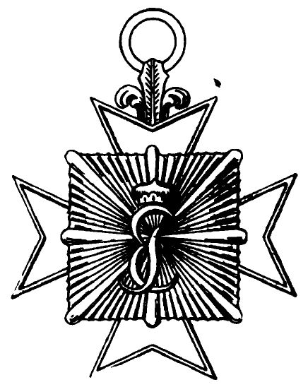 Order of the Golden Flame (Order of Phoenix), badge, reverse. Principality of Hohenlohe.